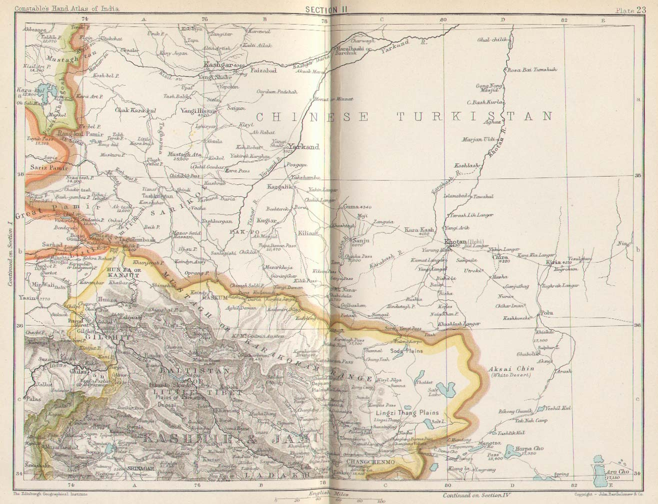 Section 1Section 2Section 3Section 4Section 5 (*Karachi*)Section 6 (*Delhi*)Section 7 (*Lucknow*)Section 8 (*Calcutta*)Section 9Section 10 (*Bombay*)Section 11Section 12Section 13 (*Madras*)Section 14MAPS FROM CONSTABLE'S 1893 HAND ATLAS -- see also the accompanying *INDEX OF PLACE NAMES*Source of all these maps: Oct. 2005)# Plate 22. Sect. I: Afghan Turkistan, Bokhara, Hindu Kush and Kafiristan# Plate 23. Sect. II: Chinese Turkistan, Kashmir & Jamu# Plate 24. Sect. III: Afghan Frontier, SE Afghanistan and west Punjab# Plate 25. Sect. IV: East Punjab and Kashmir# Plate 26. Sect. V: Rajputana west, Sind, Cutch and Gujarat# Plate 27. Sect. VI: Rajputana east# Plate 28. Sect. VII: NW Provinces, west Nepal, Oudh# Plate 29. Sect. VIII: Bengal, Nepal, Sikkim, Bhutan and west Assam# Plate 30. Sect. IX: Upper Burma, Assam and Chittagong# Plate 31. Sect. X: Bombay, Aden and Socotra# Plate 32. Sect. XI: Central Provinces# Plate 33. Sect. XII: Lower Burma# Plate 34. Sect. XIII: Madras, Mysore and Goa# Plate 35. Sect. XIV: Travancore, Trichinopoli and Ceylon*Bombay map**Calcutta map**Delhi map**Karachi map**Lucknow map**Madras map*